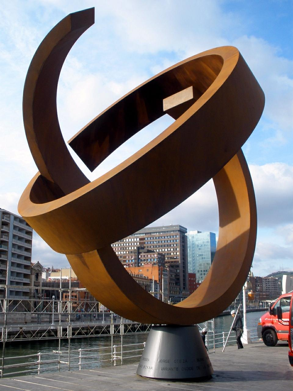 Variante Ovoide de la Desocupación de la Esfera, escultura de Jorge Oteiza en Bilbao (País Vasco, España)